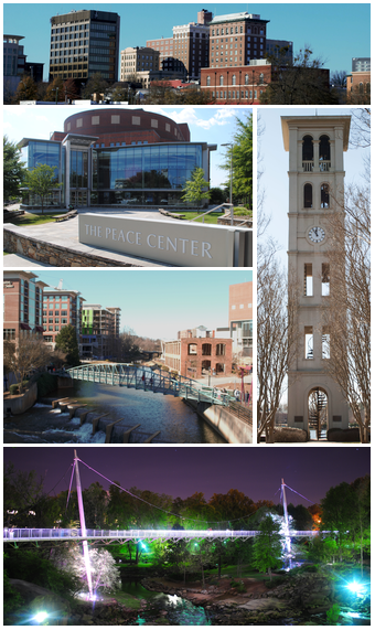 Photos around Greenville, South Carolina. All photos in the montage were taken by me and placed in this montage which was then deemed in public domain.